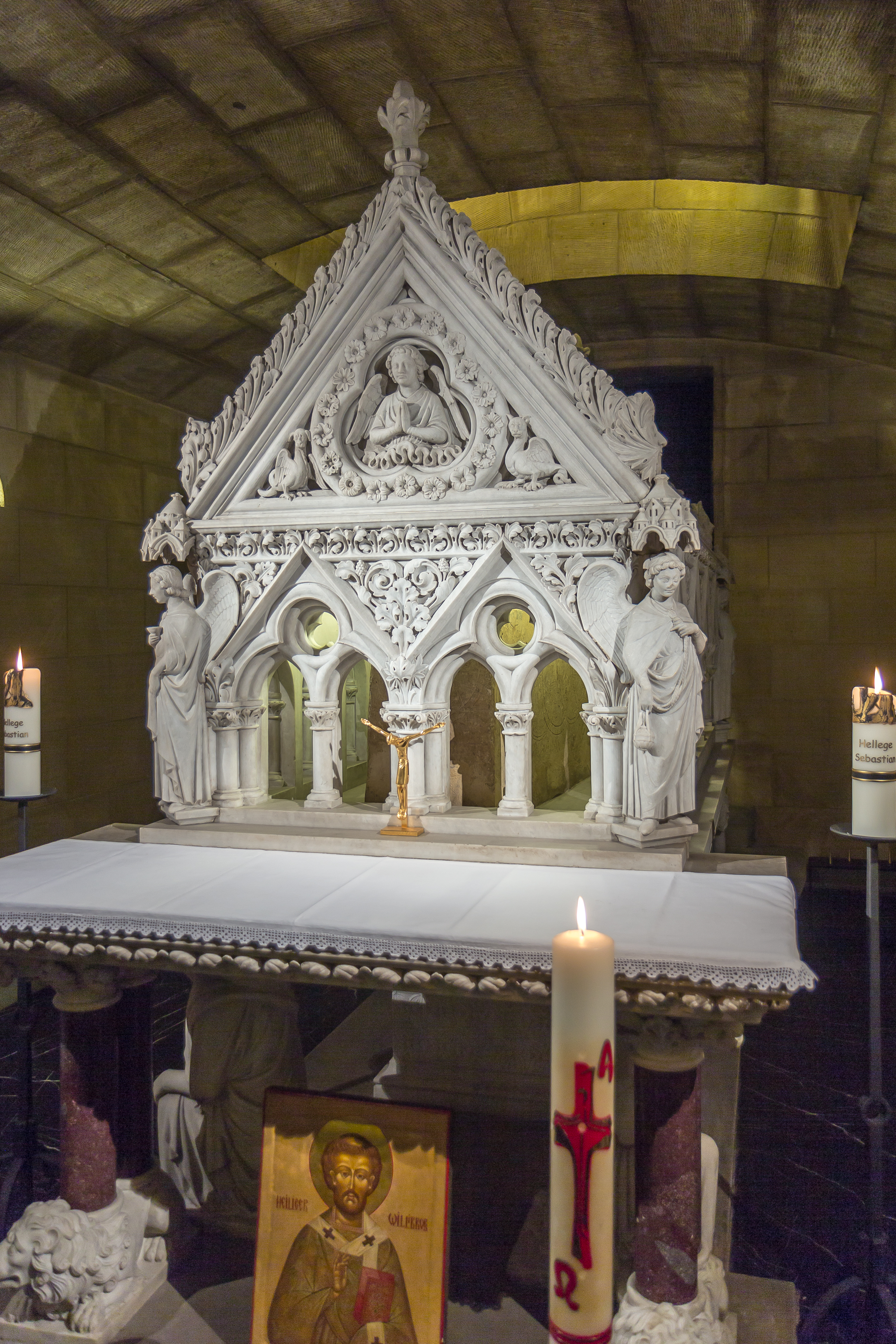 Tomb of Saint Willibrord, St. Willibrord Basilika Echternach